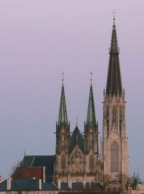 St. Wenceslas Cathedral, Olomouc, Czech republic